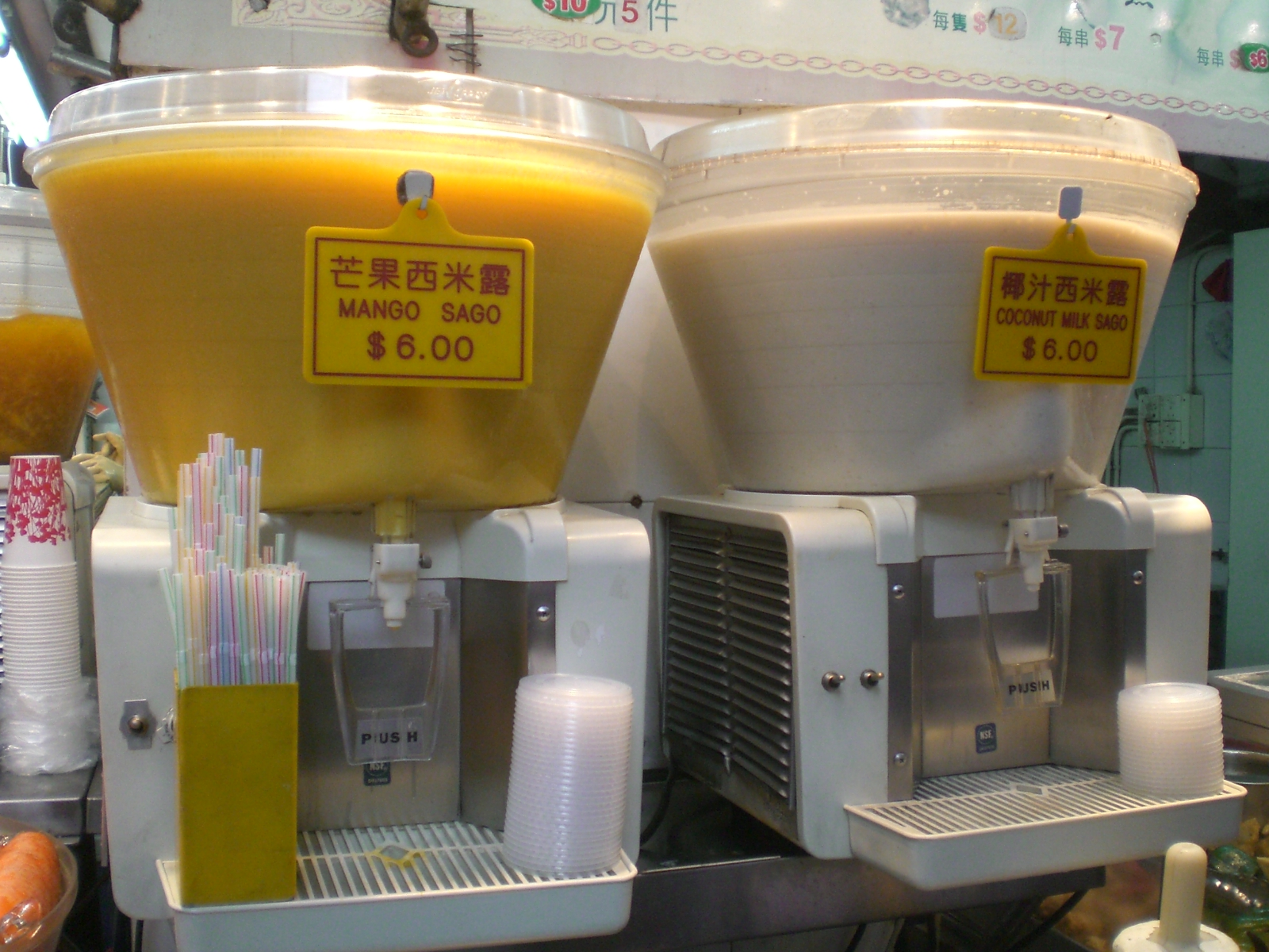 九龍尖沙咀zh:樂道小吃店